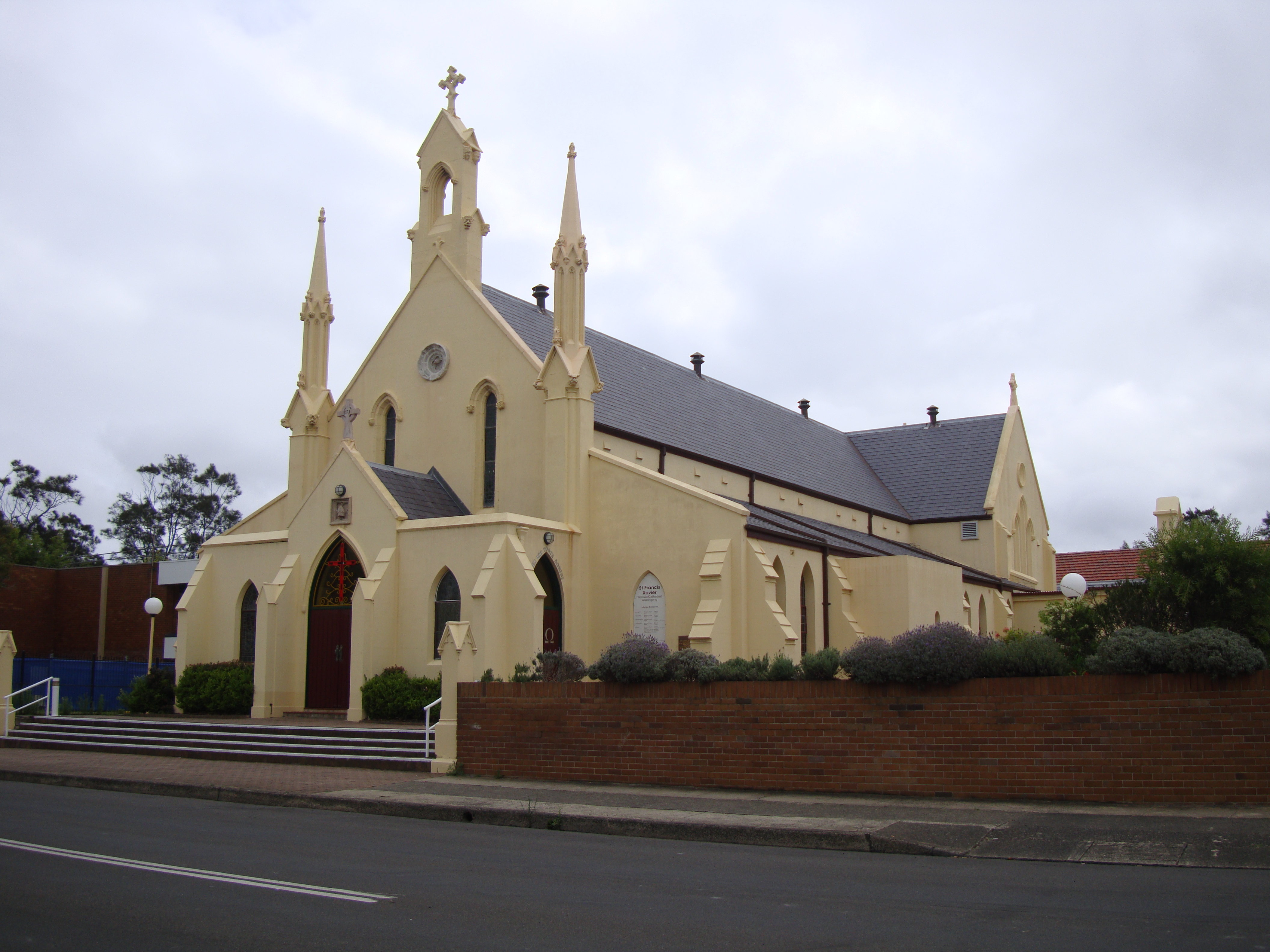 Photograph of St Francis Xavier Cathedral, Wollongong, New South Wales, Australia